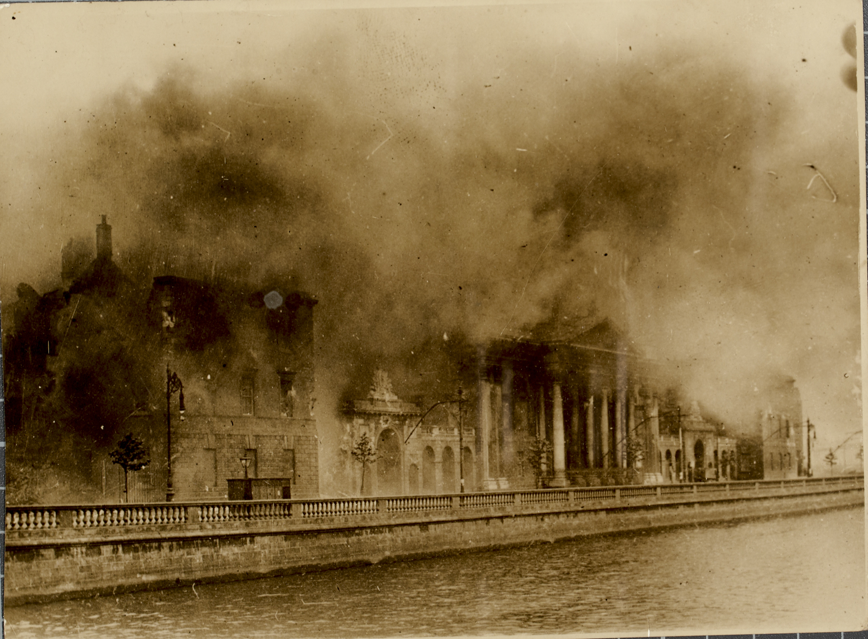 The Four Courts in Dublin during the Battle of Dublin. The building had been taken over by Anti-Treaty forces on 14 April 1922. Bombarded by National Army forces on 28 and 29 June, a huge explosion of stored munitions on 30 June destroyed the Public Records Office, and with it a huge swathe of Irish cultural memory. Date: 30 June 1922 NLI Ref.: HOG57